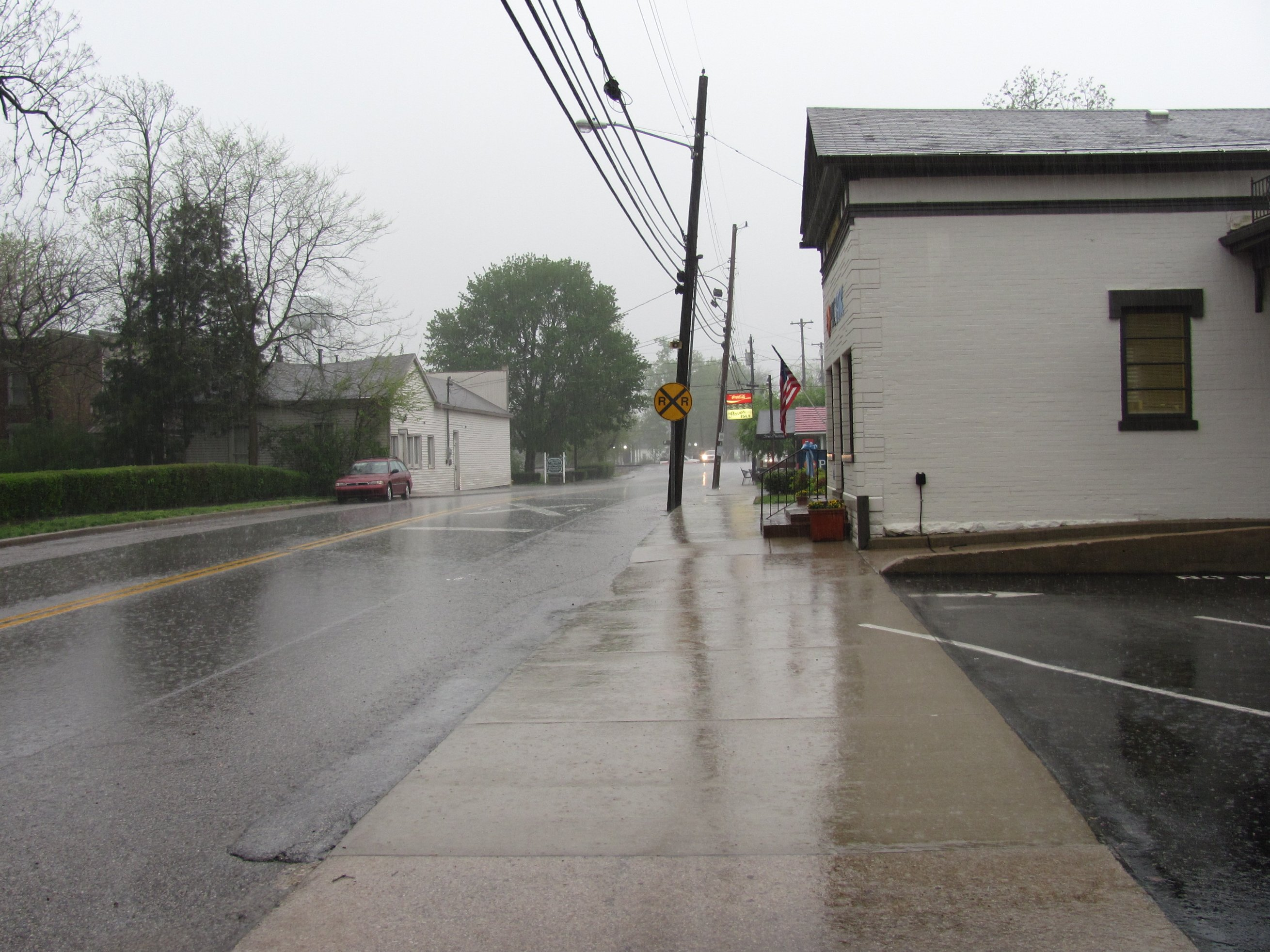 Main Street, Smiths Grove Kentucky